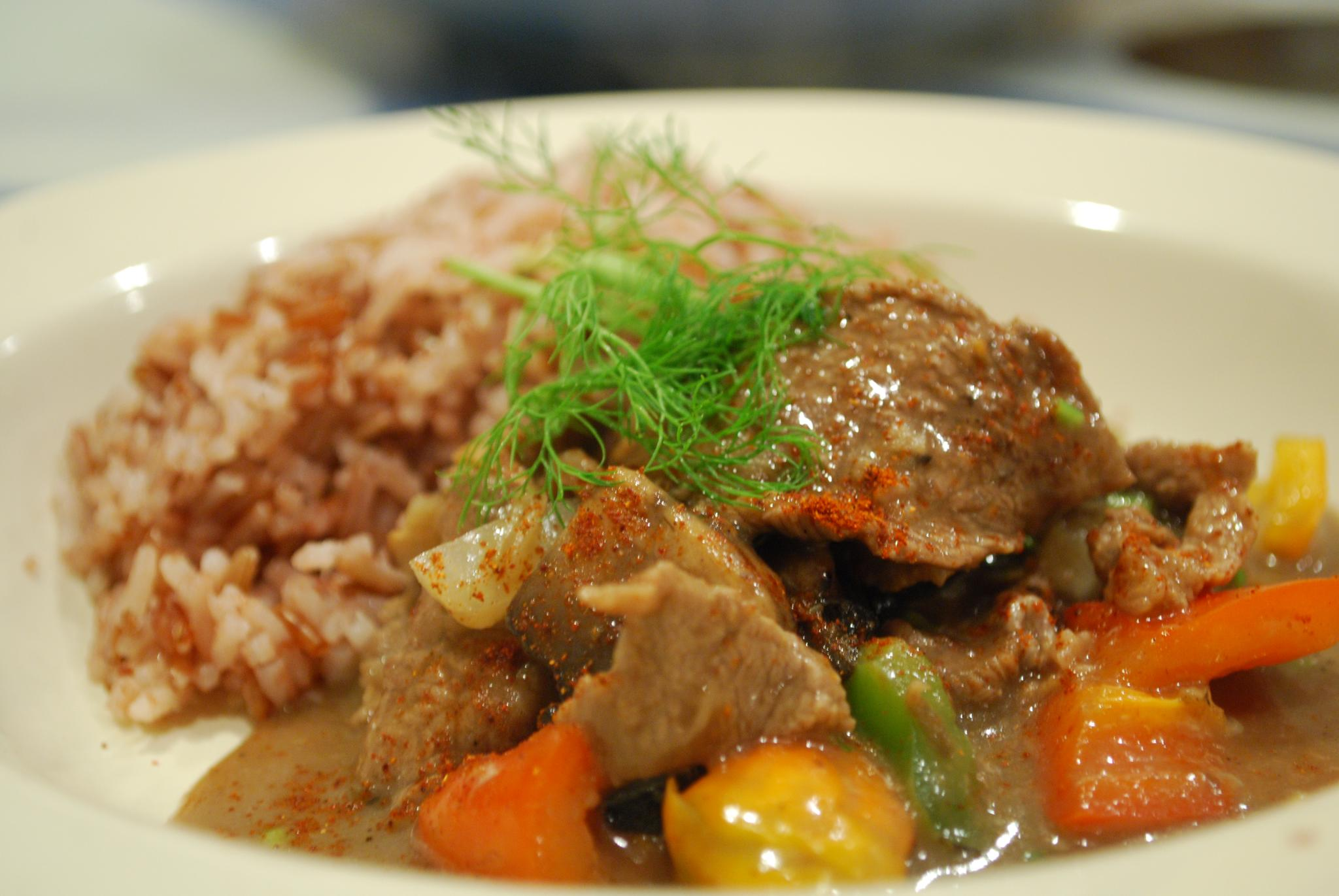 Beef Stroganoff with unpolished red rice